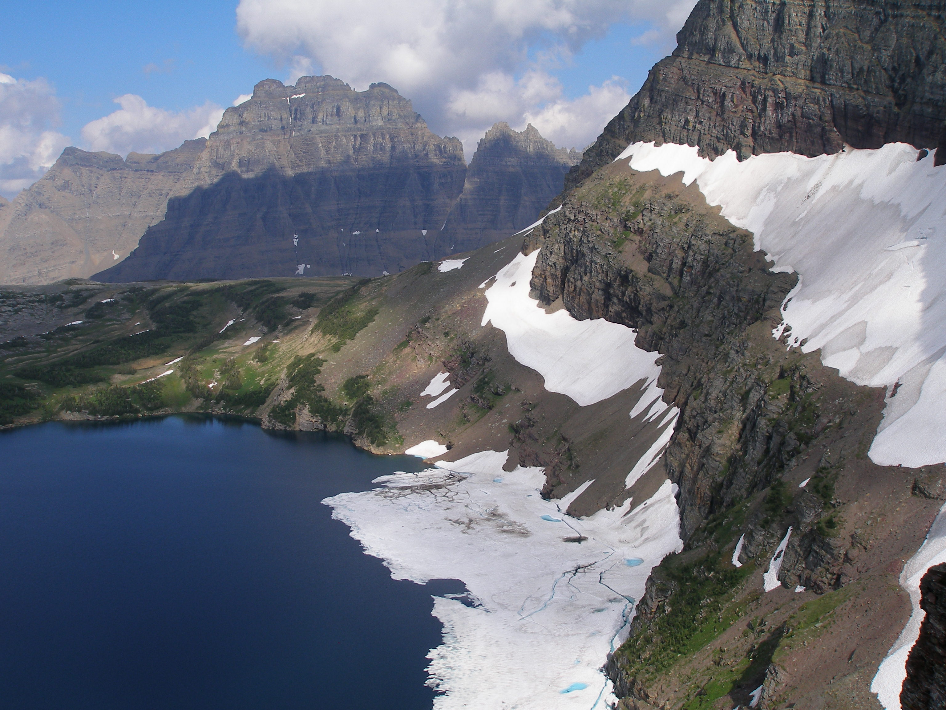 Picture of Sue Lake in Glacier National Park, MT. Taken July 29, 2009